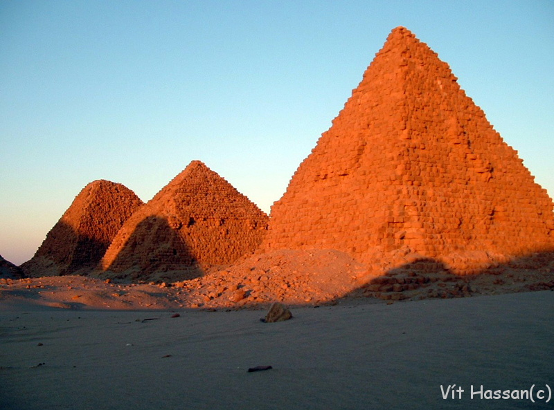 The pyramid field of Nuri contained 21 kings together with 52 queens and princesess . The first to build his tomb at Nuri was king Taharqa. His pyramid had 51.75 m square and 40 or 50 m high. Taharqa subterranean chambers are the most elaborate of any Kushite tomb. The entrance was by an eastern stairway trench , north of the pyramid's central axis, reflecting the alignment of the original smaller pyramid. Three steps led to a doorway, with a moulded frame, that opened to a tunnel, widened and heightened into an antechamber with a barrel-vaulted ceiling. Six massive pillars carved from the natural rock divide the burial chamber into two side aisles and a central nave, each with a barrel-vaulted ceiling. The entire chamber was surrounded by a moat-like corridor entered steps leading down from in front of the antechamber doorway. After Taharqa 21 kings and 53 queens and princesess were buried at Nuri under pyramids of good masonry, using blocks of local red sandstone. The Nuri pyramids were generally much larger than those at el-Kurru, reaching heights of 20 to 30 m. The last king to be buried at Nuri died in about 308 BC. Taken in Nuri,Northern Sudan. Check my set: Pyramids & templeS